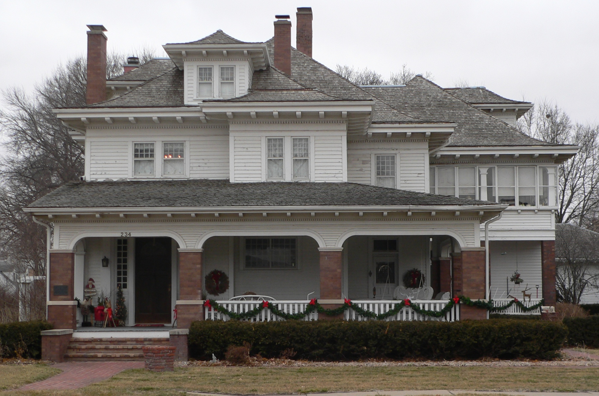 R. B. Schneider house, located at 234 W. 10th Street in Fremont, Nebraska; seen from the south.